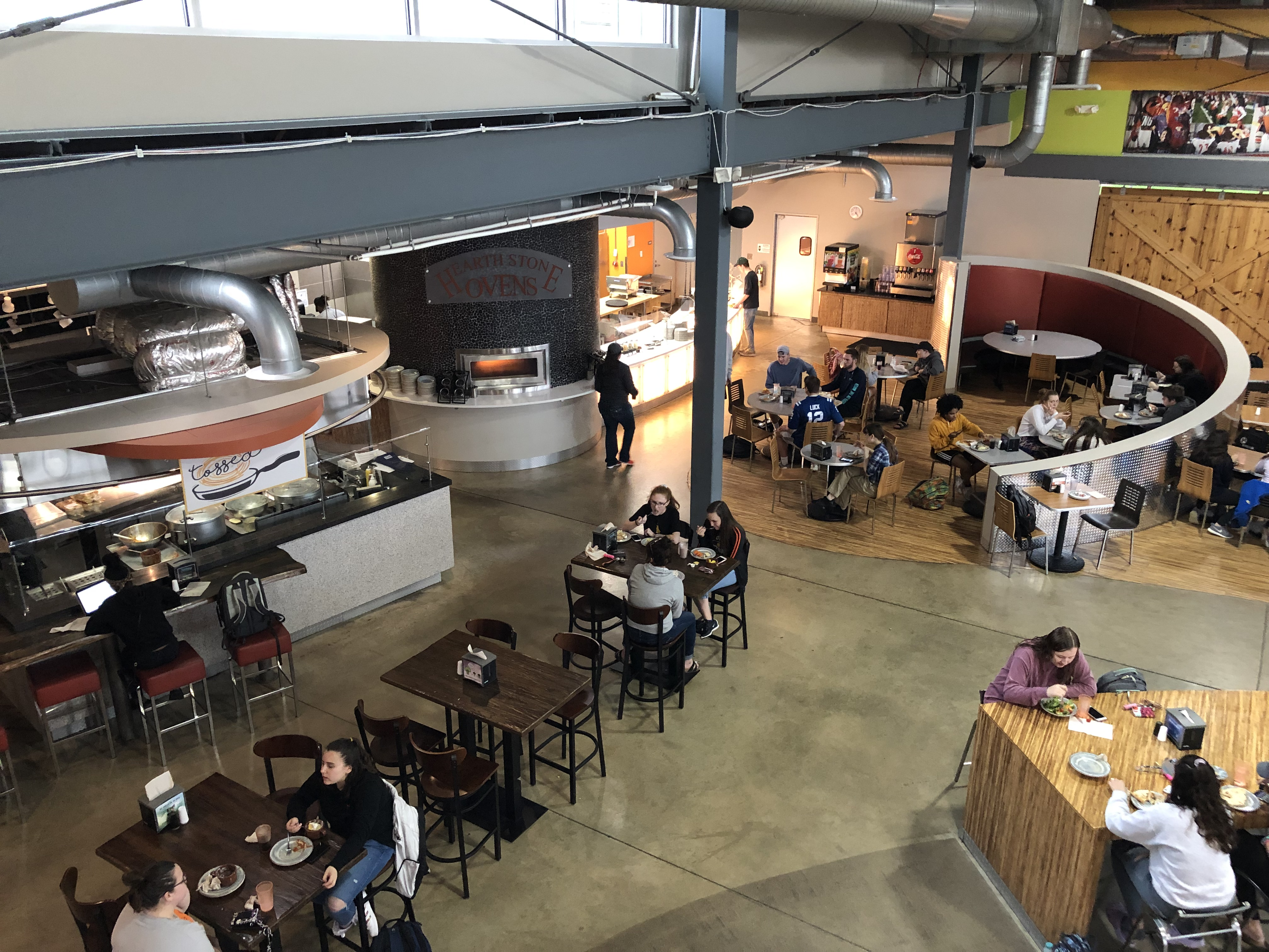 The interior of the Oaks Dining Hall from the second floor.